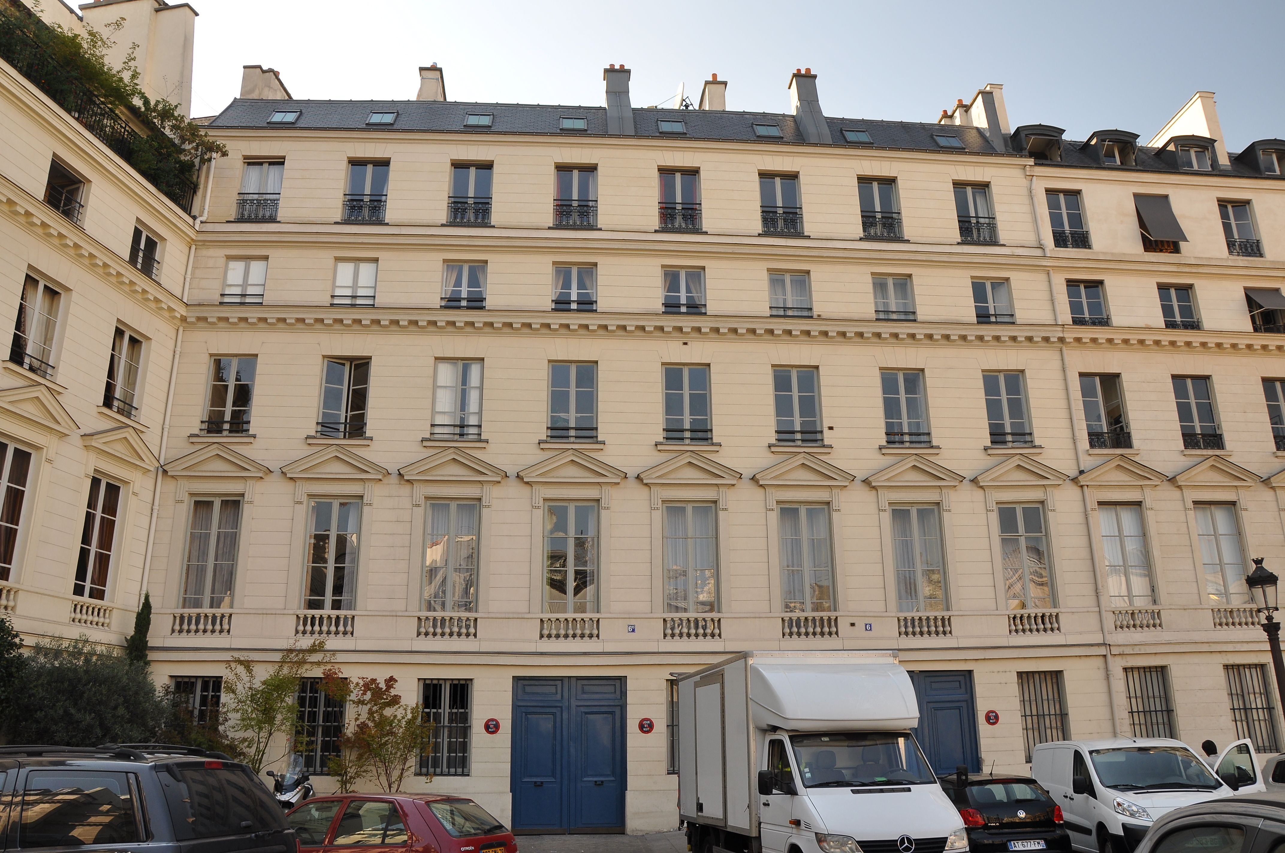 The buldings located at 6 and 6 bis place du Palais-Bourbon in Paris 7th district, France